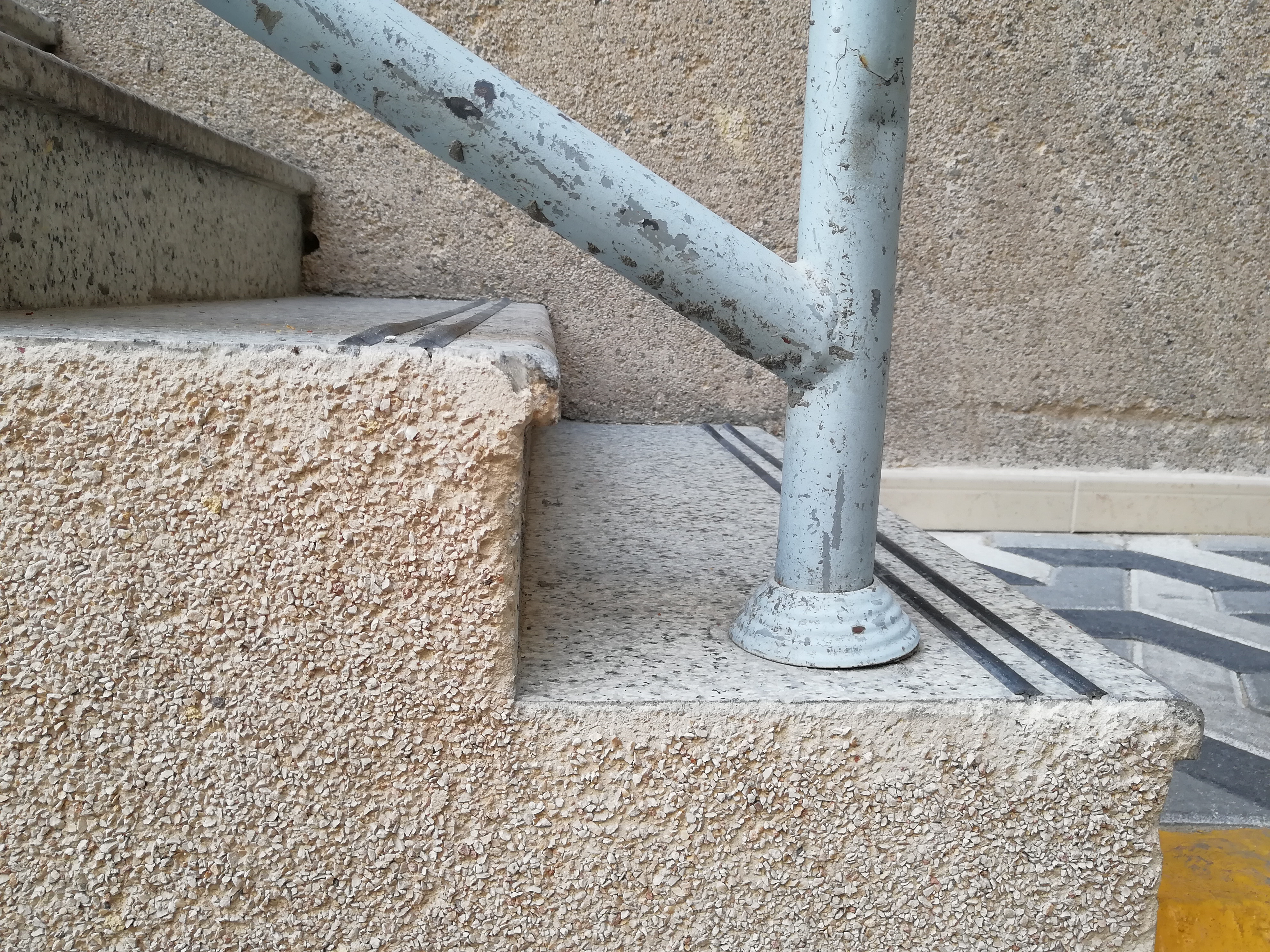 Steps of a stairs with anti-slip rubber lines: adequate hight and visual friendly (black color). Small nosing to broaden the steps for the foot.